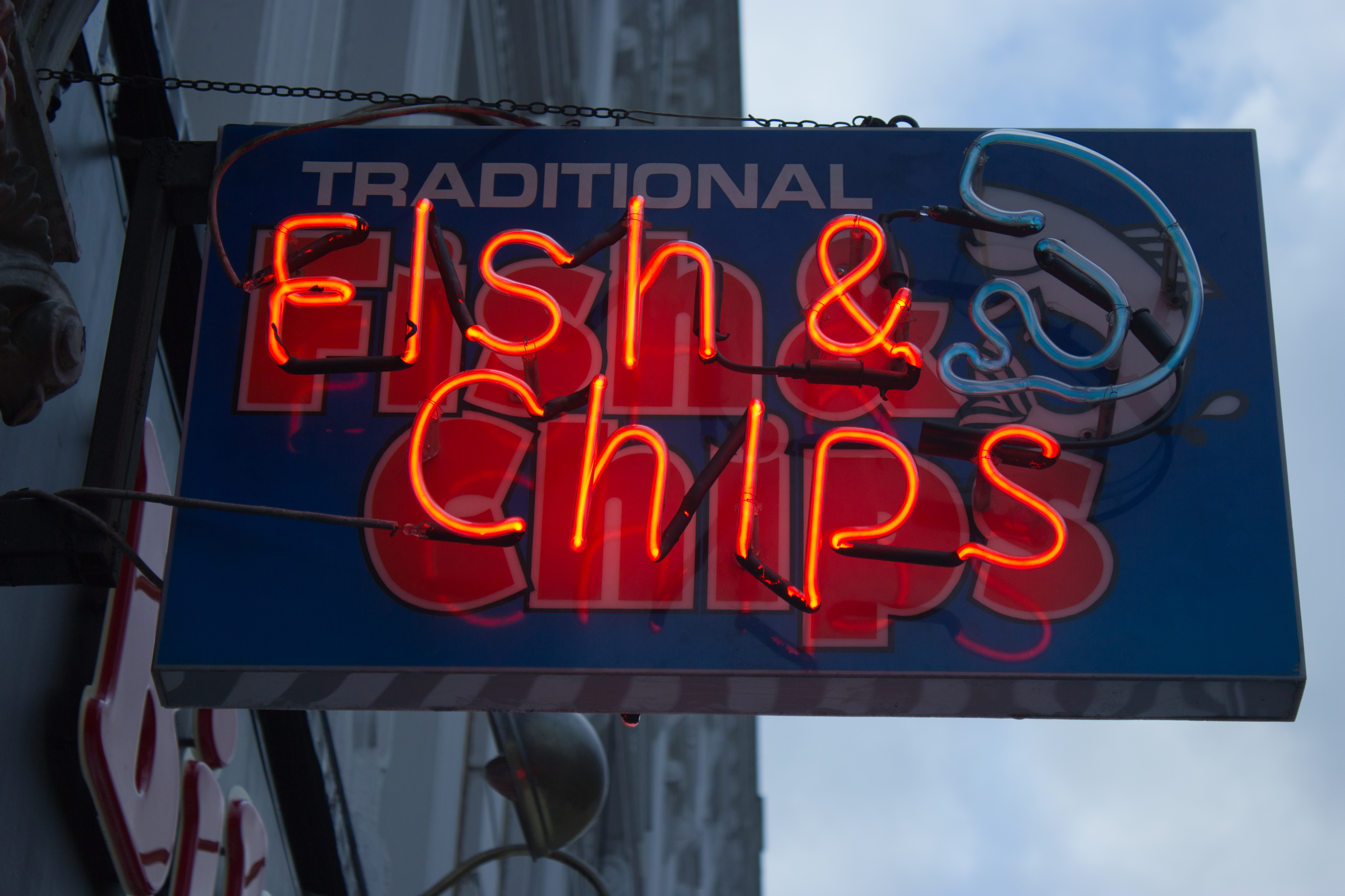 London, England 2011